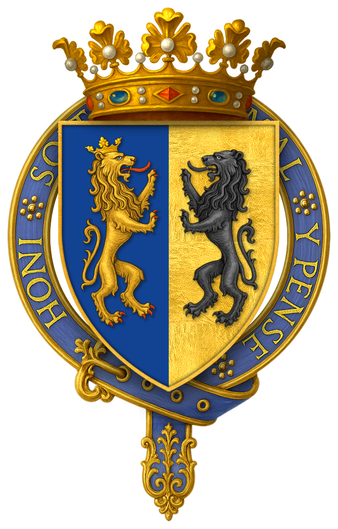 William I, Duke of Guelders and Jülich BELTZ, George Frederick, Memorials of the Order of the Garter from Its Foundation to the Present Time, London: William Pickering, 1841. “William I. Duke of Guelders and Juliers… Arms: Per pale Azure and Or, two lions combatant, the dexter of the second, the sinister Sable.”